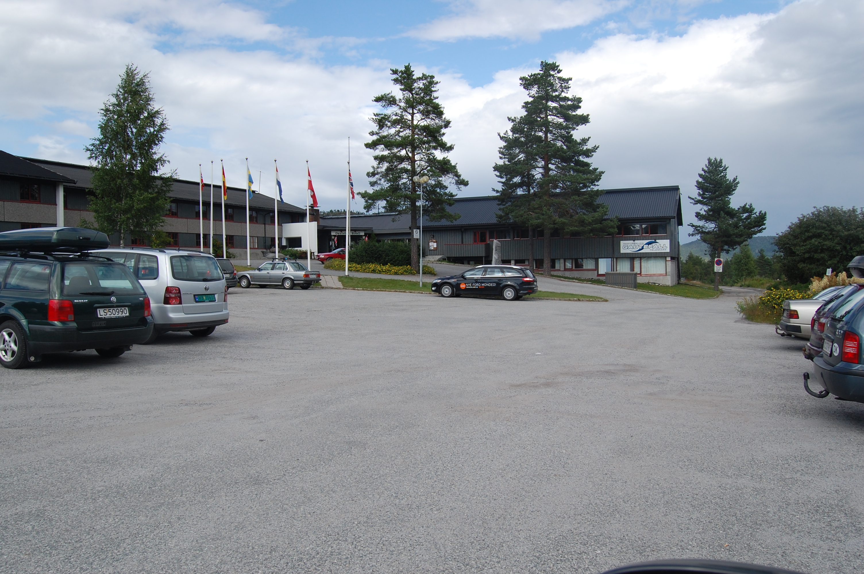 Gautefall Tourist Hotel